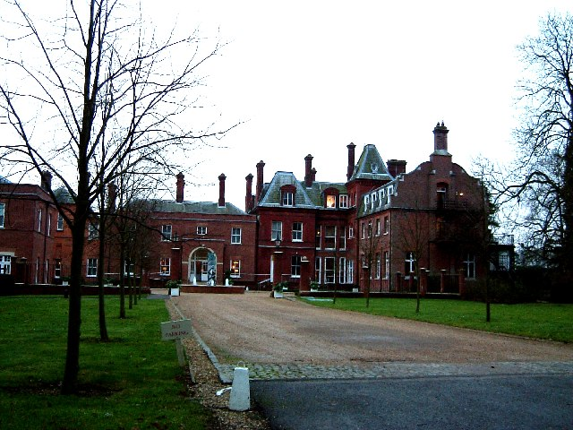 Champneys. The world famous Champneys Health Resort. One of the prime pampering palaces of Britain ! It stands in very pleasant parkland and entry is via very grand wrought iron gates. This photo was taken on rather a gloomy day, making it look rather like an assylum in my opinion ! Some historical information about Champneys can be found here Link to Champney's current activities here